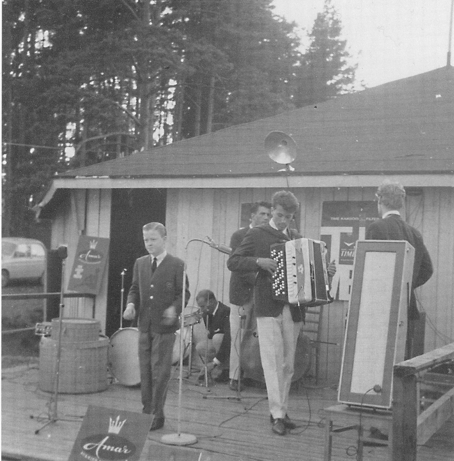 Vesa Enne